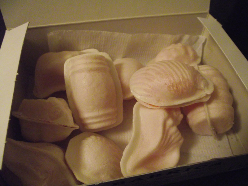 Ovos moles